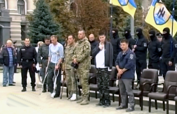 Azov Battalion Color Guard during official ceremony at the Ministry of the Interior of Ukraine honoring the wounded and the dead in the War in Donbass, August 22, 2014.